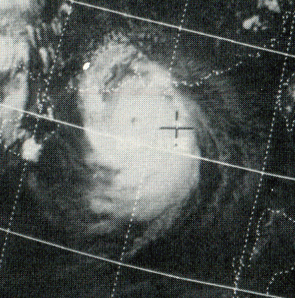 This ESSA 9 weather satellite image of Typhoon Rose was taken on August 16, 1971 at 0646 UTC